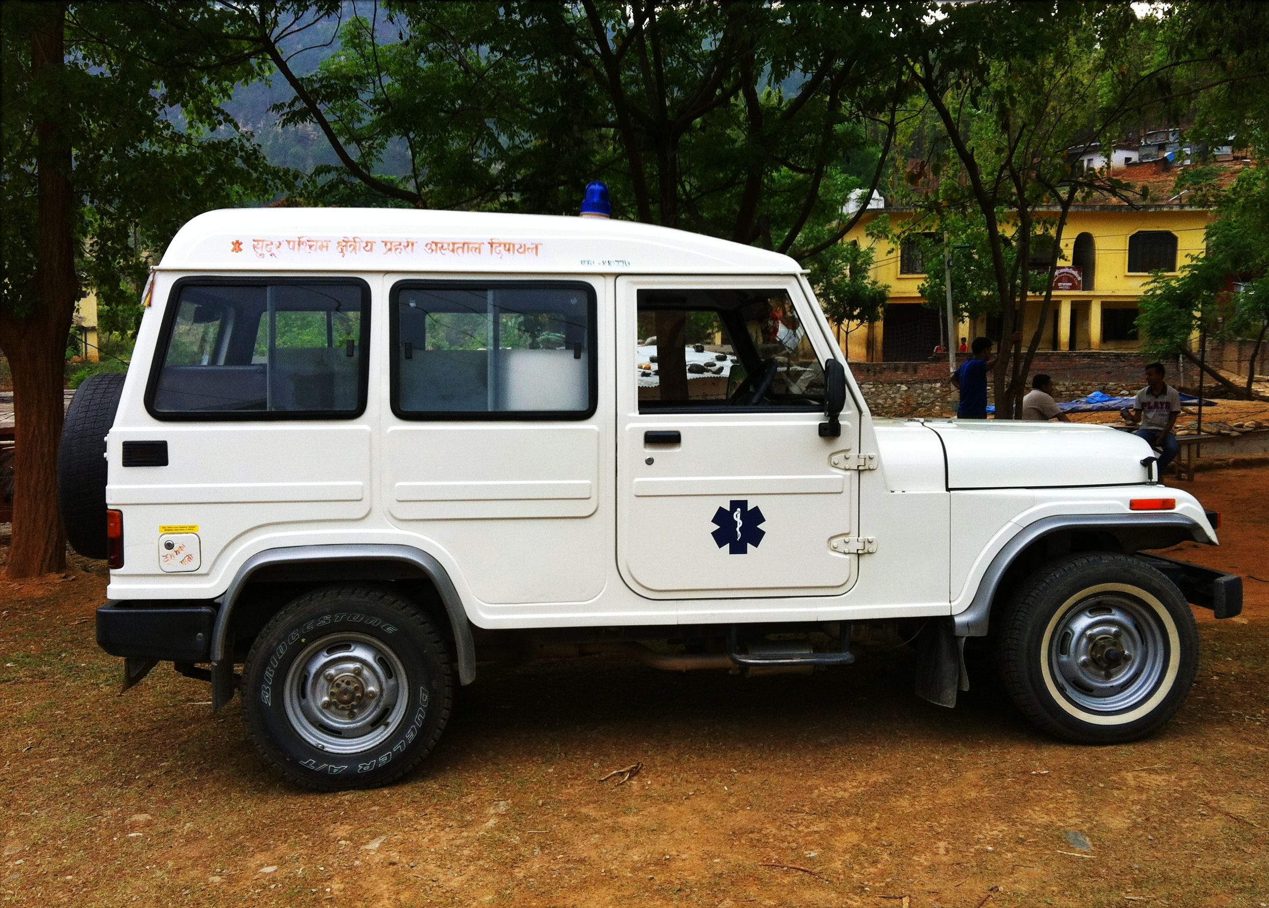 A Nepalese Ambulance